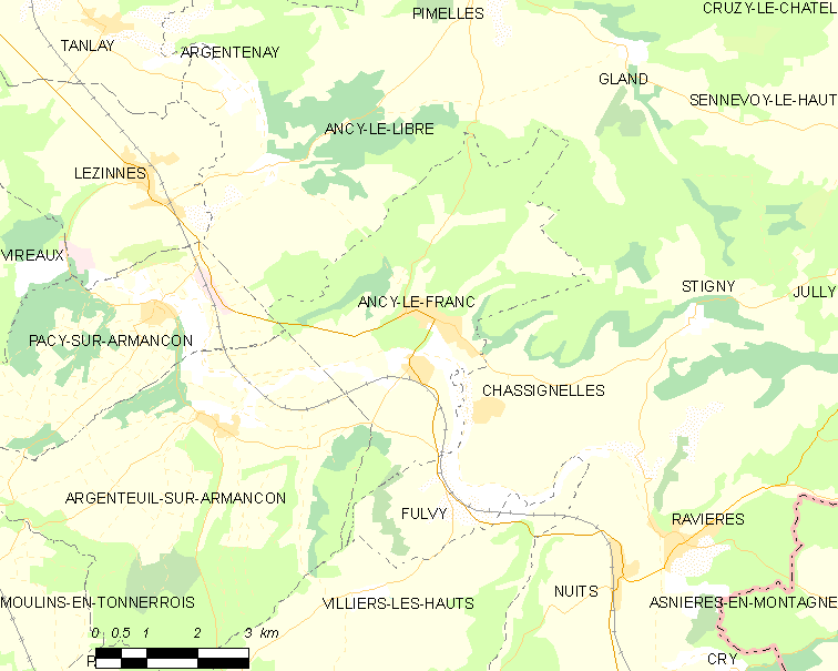 Map of French municipality Ancy-le-Franc